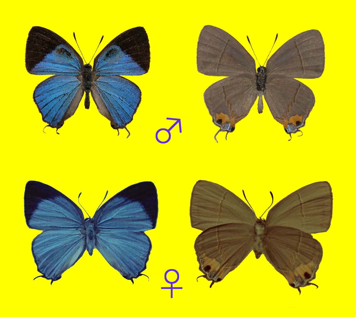 Britomartis igarashii, male and female